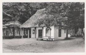 Old photograph of Generalens Lysthus at Tromnæs, Falster, Denmark, on the Corselitze estate.